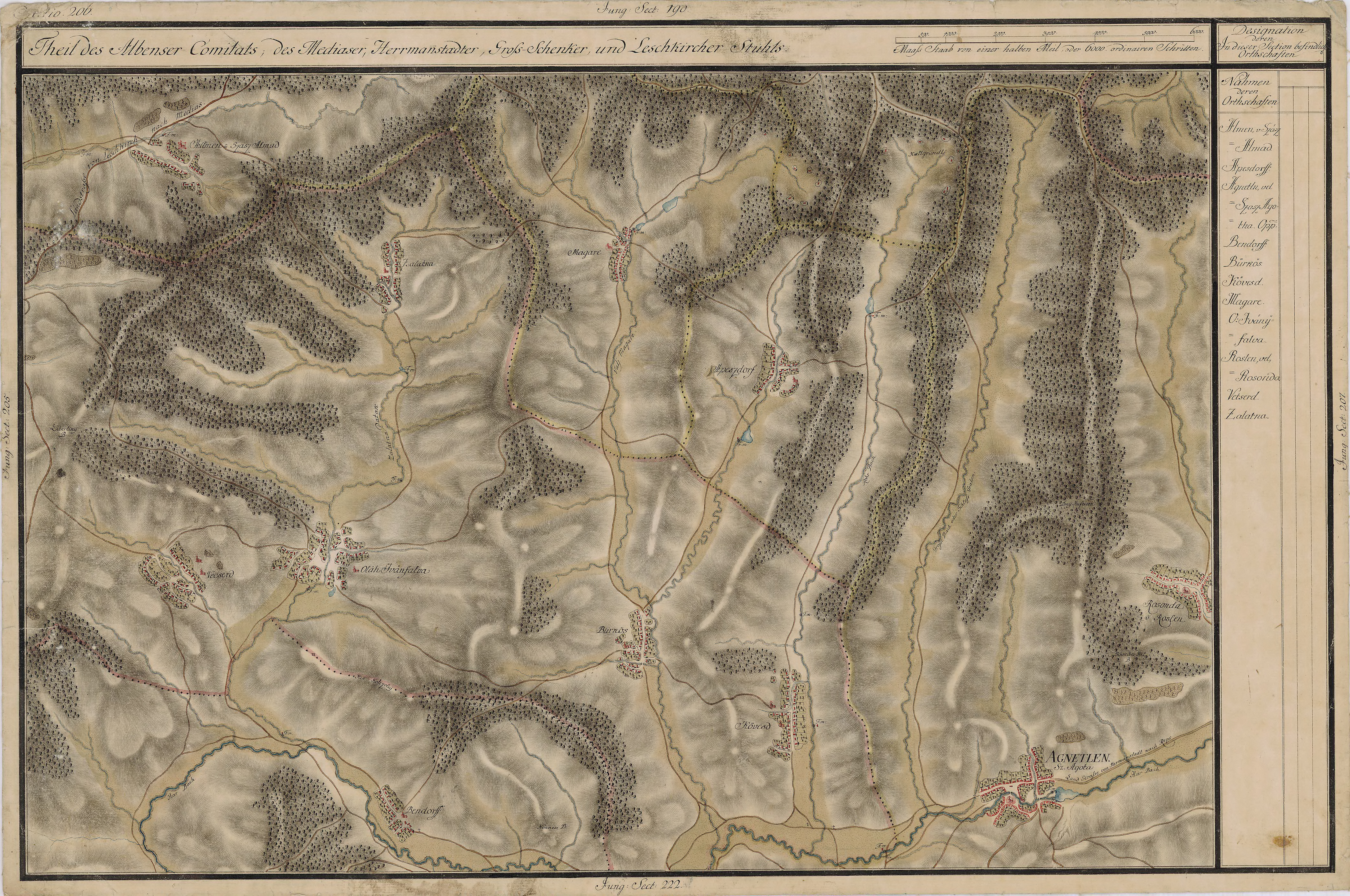 Grand Duchy of Transylvania, 1769-1773. Josephinische Landaufnahme pg.206